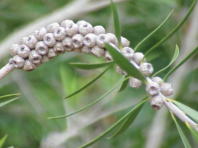 Species: Callistemon linearis Family: Myrtaceae Image No. 1